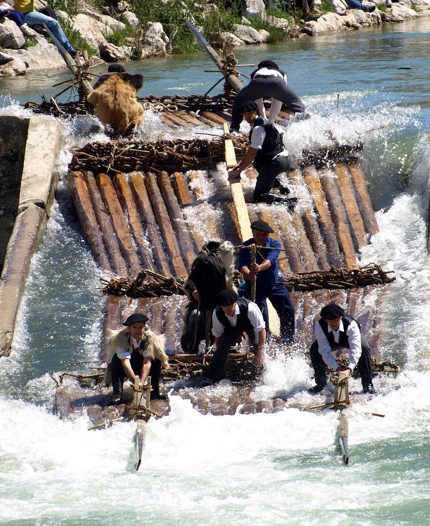 Traditional rafts in Burgi (Navarre)